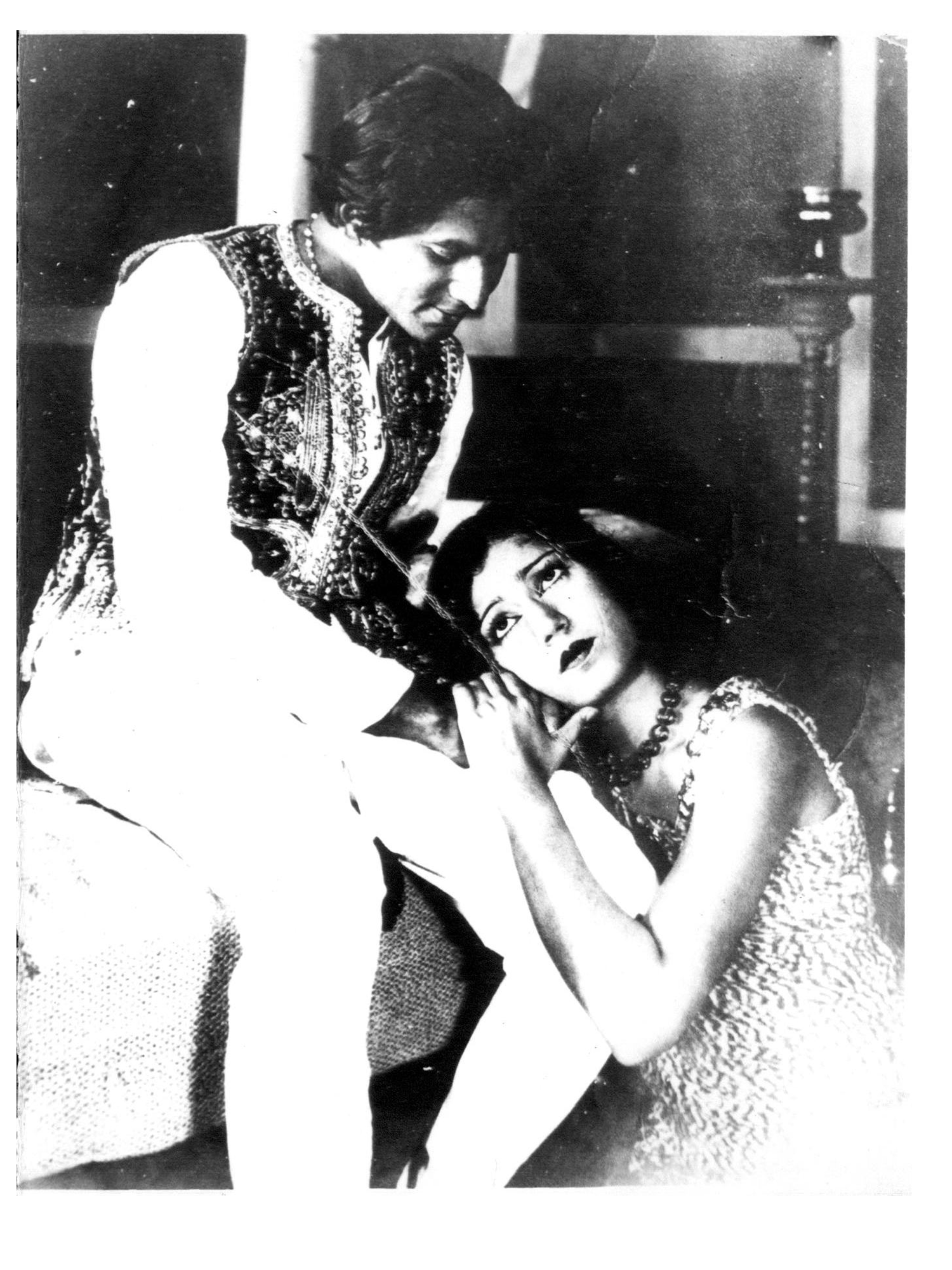 Master Vithal and Zubeida. Still from 'Alam Ara' 1931 (“Jewel of the World”)